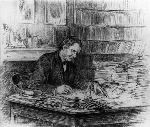 Portrait of Thomas Henry Huxley